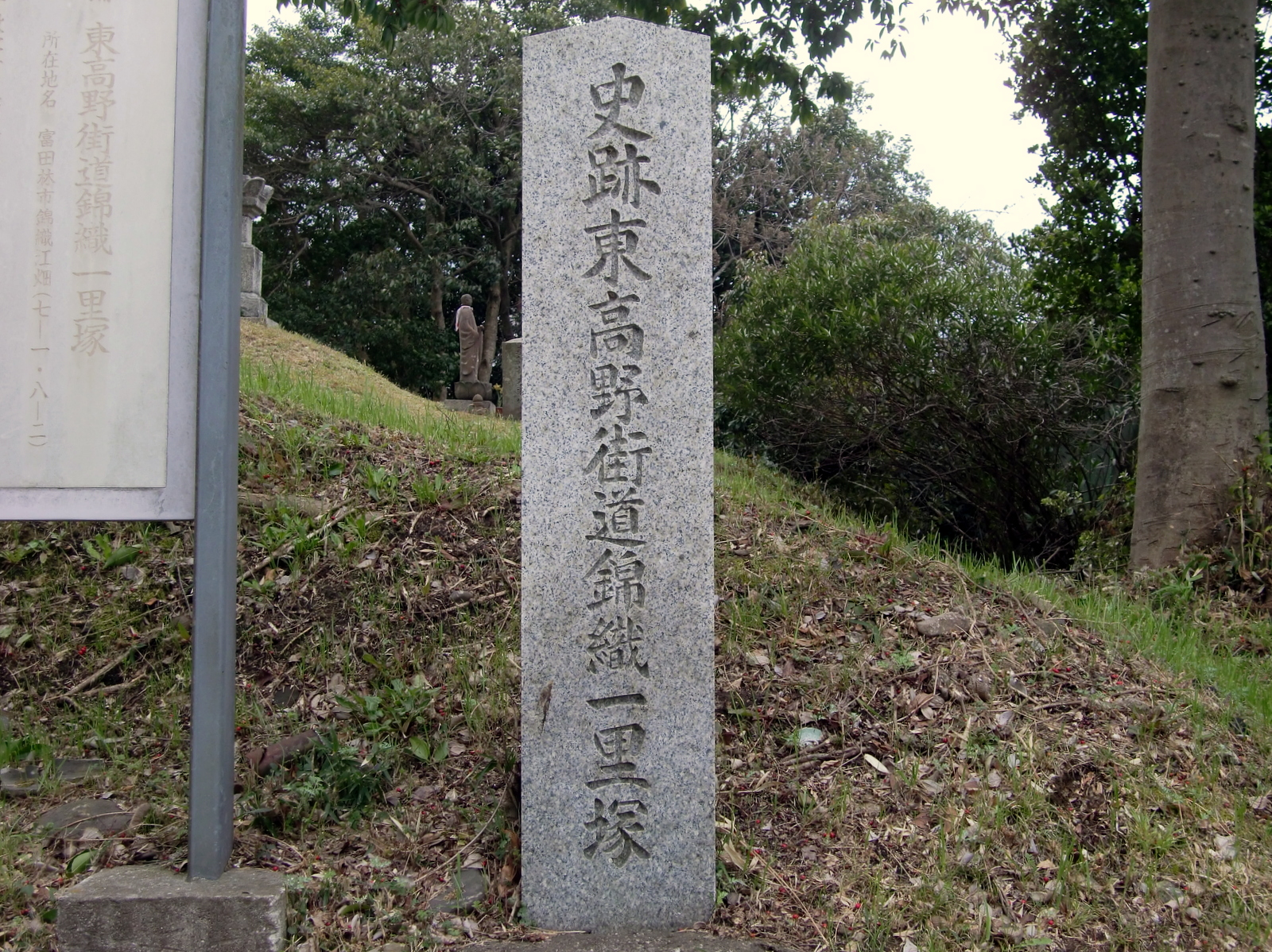 Stele of Nishikiori Ichirizuka on the Higashi-Kōyakaidō in Tondabayashi-shi, Osaka